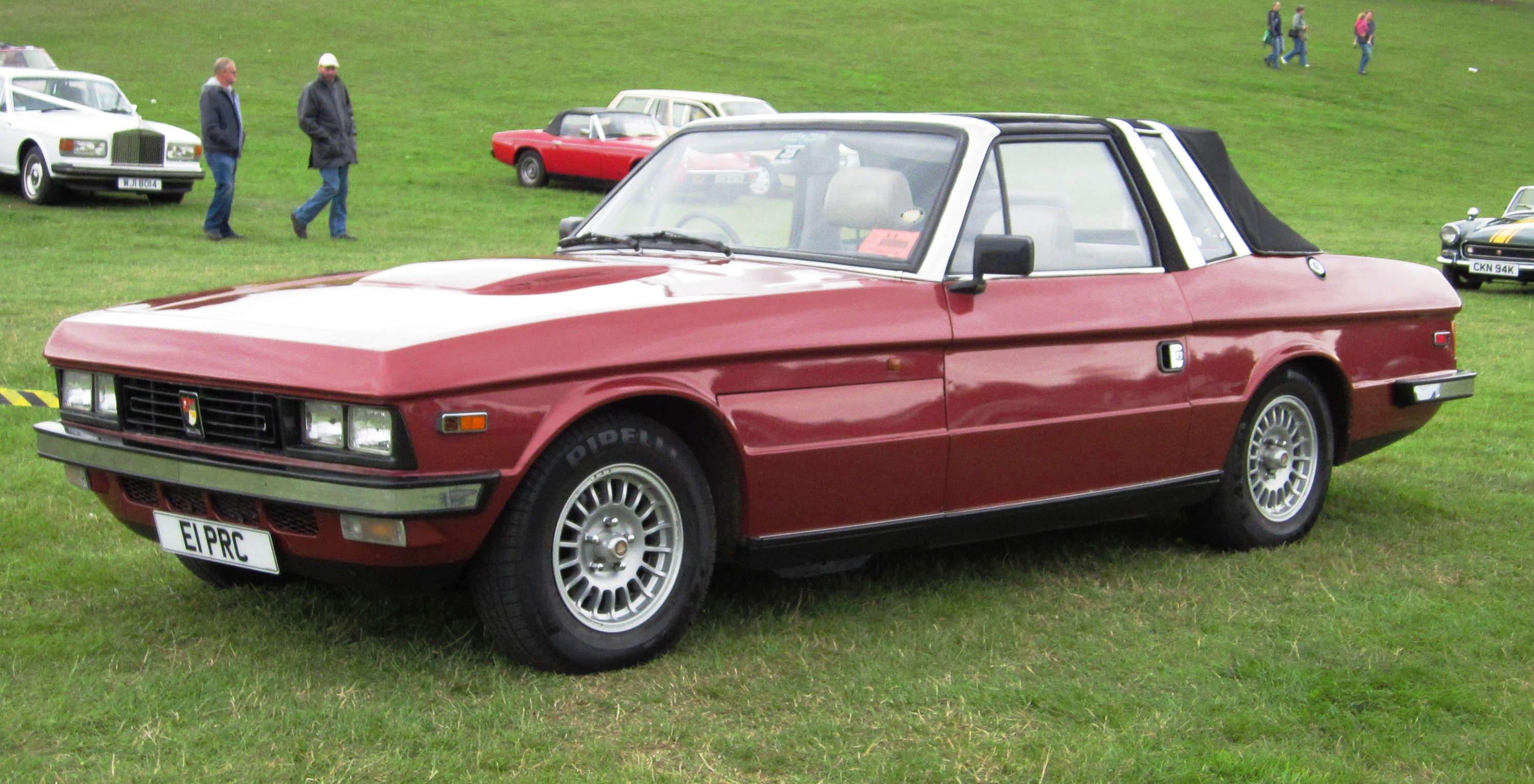 Bristol 412 at classic car show at Knebworth